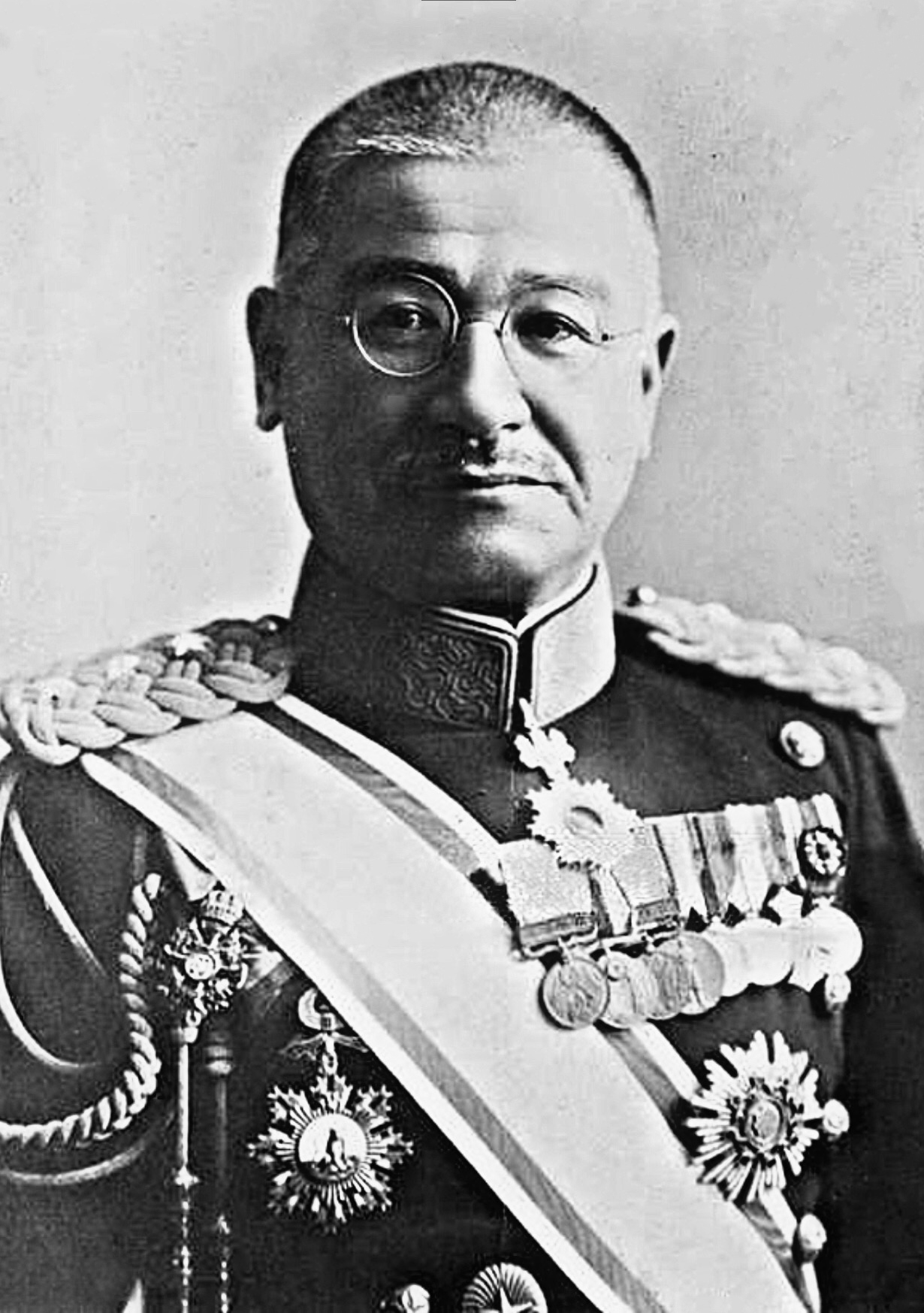 Japanese Prime Minister Nobuyuki Abe (1875–1953, in office 1939–40)